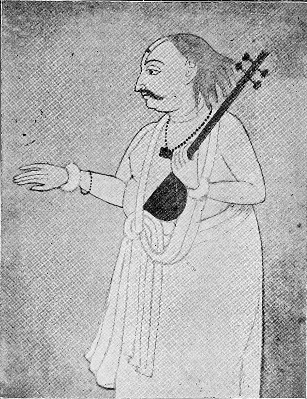 The life and teaching of Tukārām p. 70 illustration of Mahipati